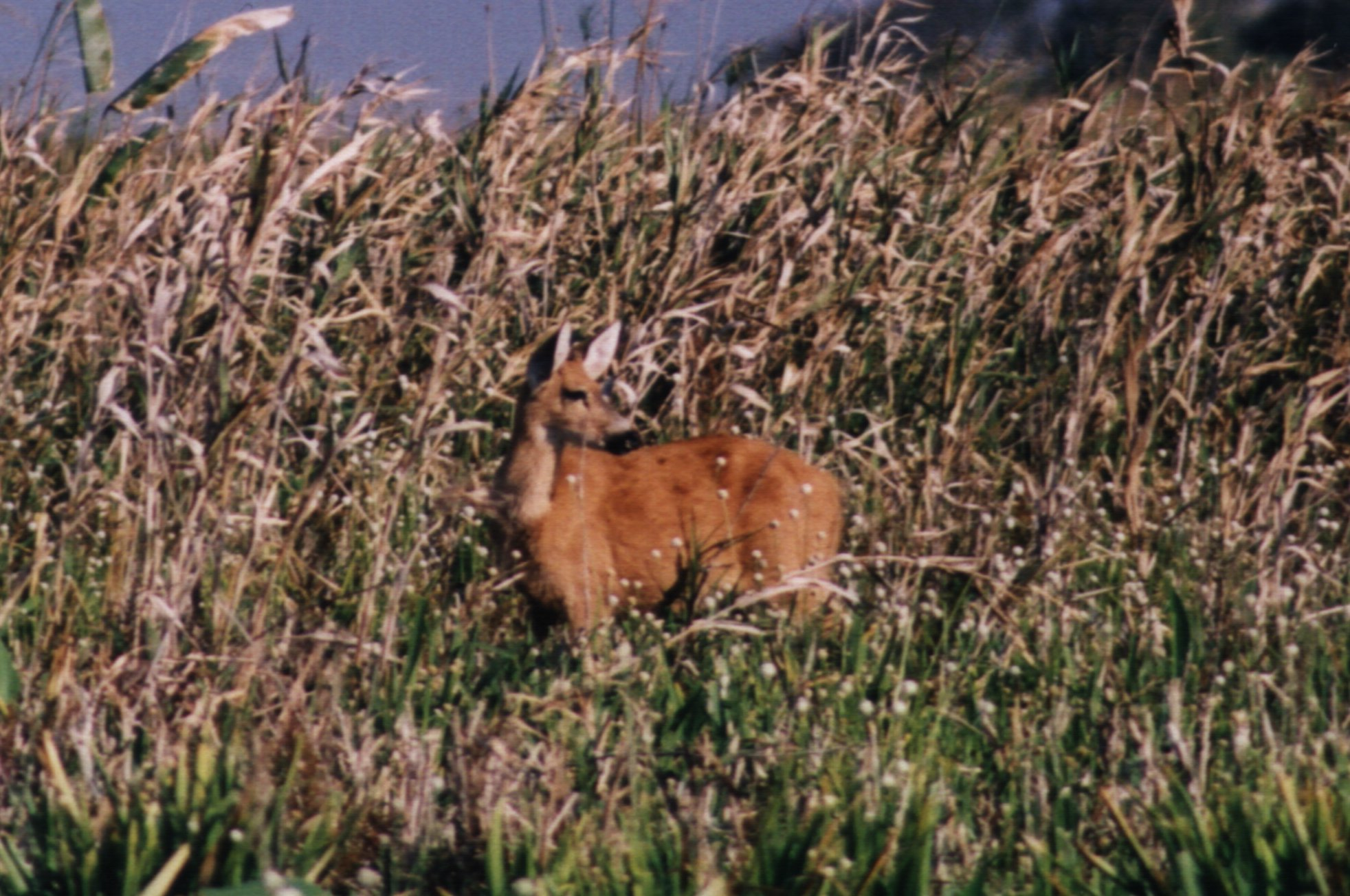 Adult female Marsh deer (Blastocerus dichotomus) at the Iberá Wetlands, in Corrientes Province, Argentina